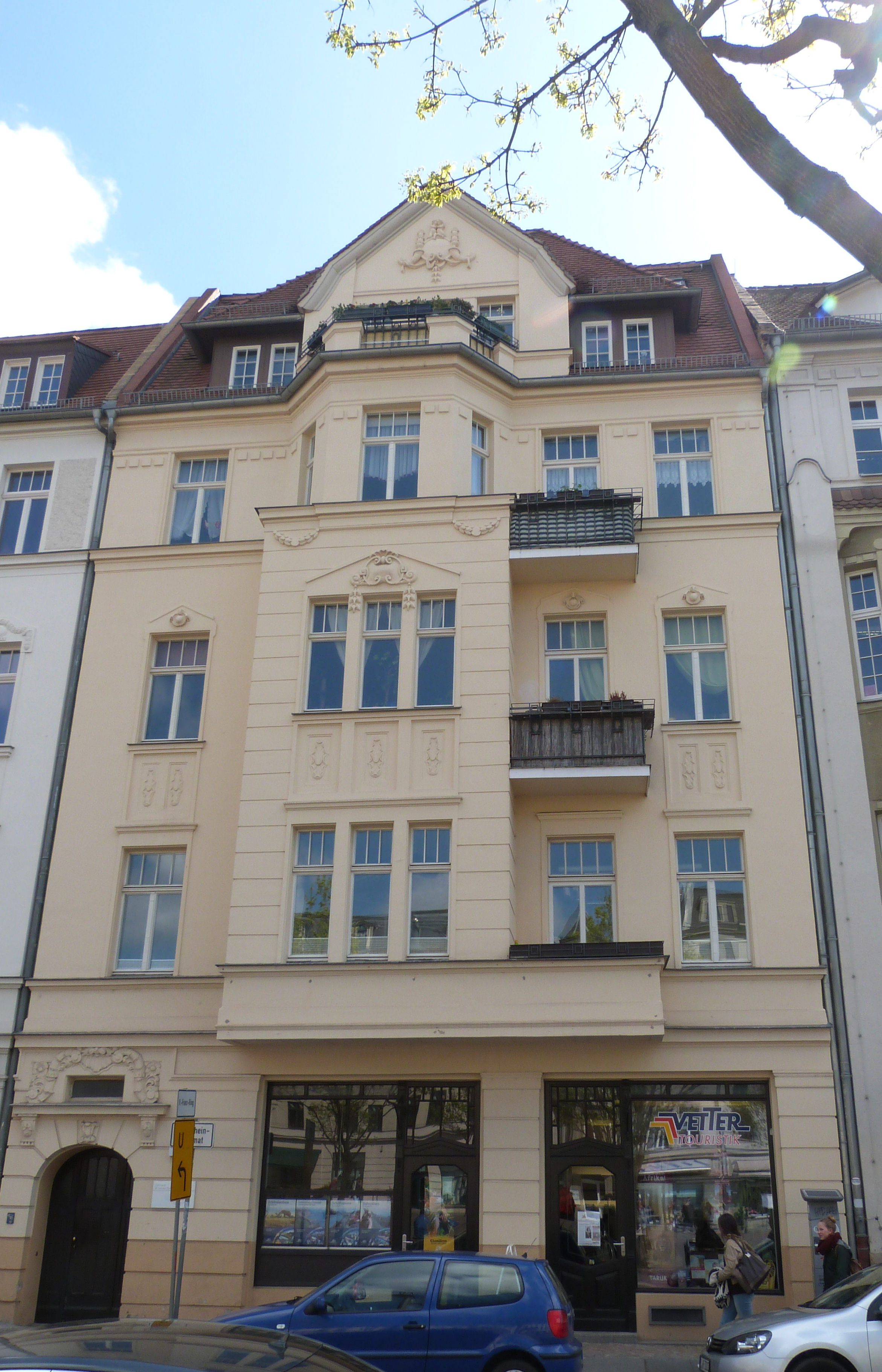 House No. 1, Salzgrafenstrasse, Halle (Saale)